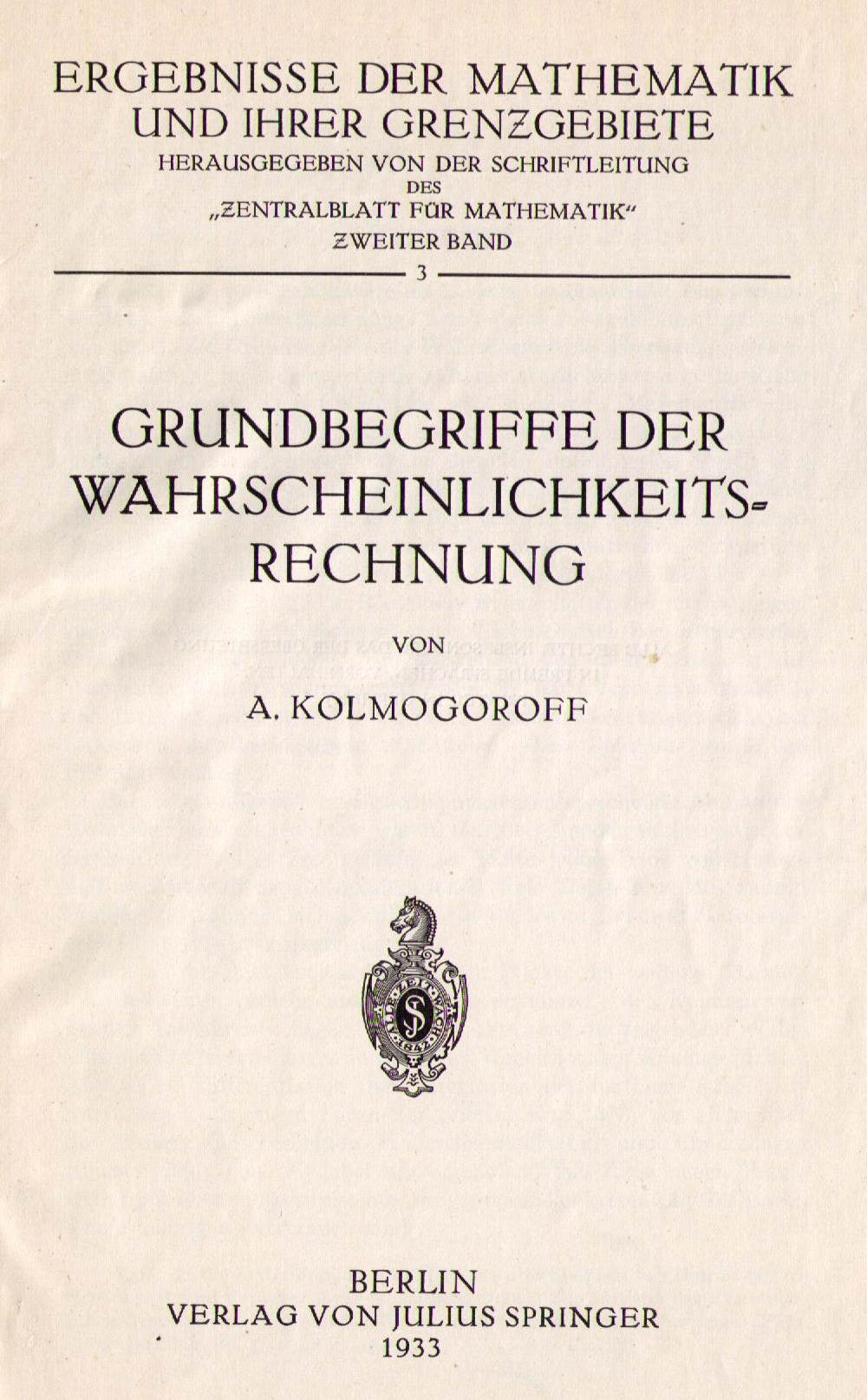 Scan of title page of Kolmogoroff: Grundbegriffe der Wahrscheinlichkeitsrechnung, Berlin, Springer, 1933